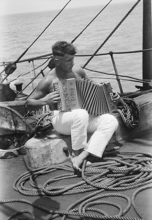 A sailor and his accordion onboard the 'Parma'.